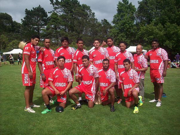 First Tonga National Tag Team - Open Mens